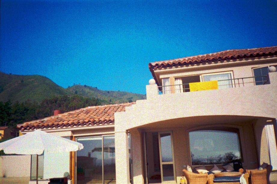 Santa Augusta is a Condo at Quintay, Casablanca, Chile